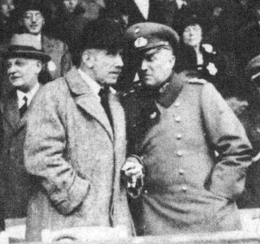 German Reichs-Chancellor Franz von Papen and his Minister of War General Kurt von Schleicher in 1932 watching a horse-race in Berlin-Karlshorst.